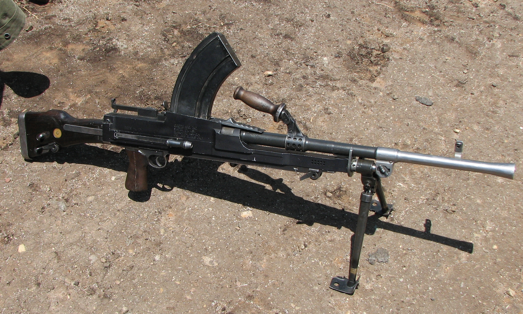 A BREN on display at Wings over Gillespie airshow.